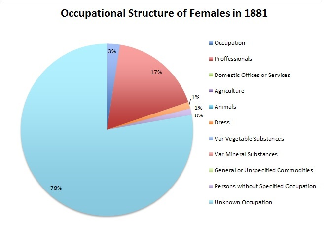 Graph showing the occupational structure of females in 1881, as reported from the Vision of Britain